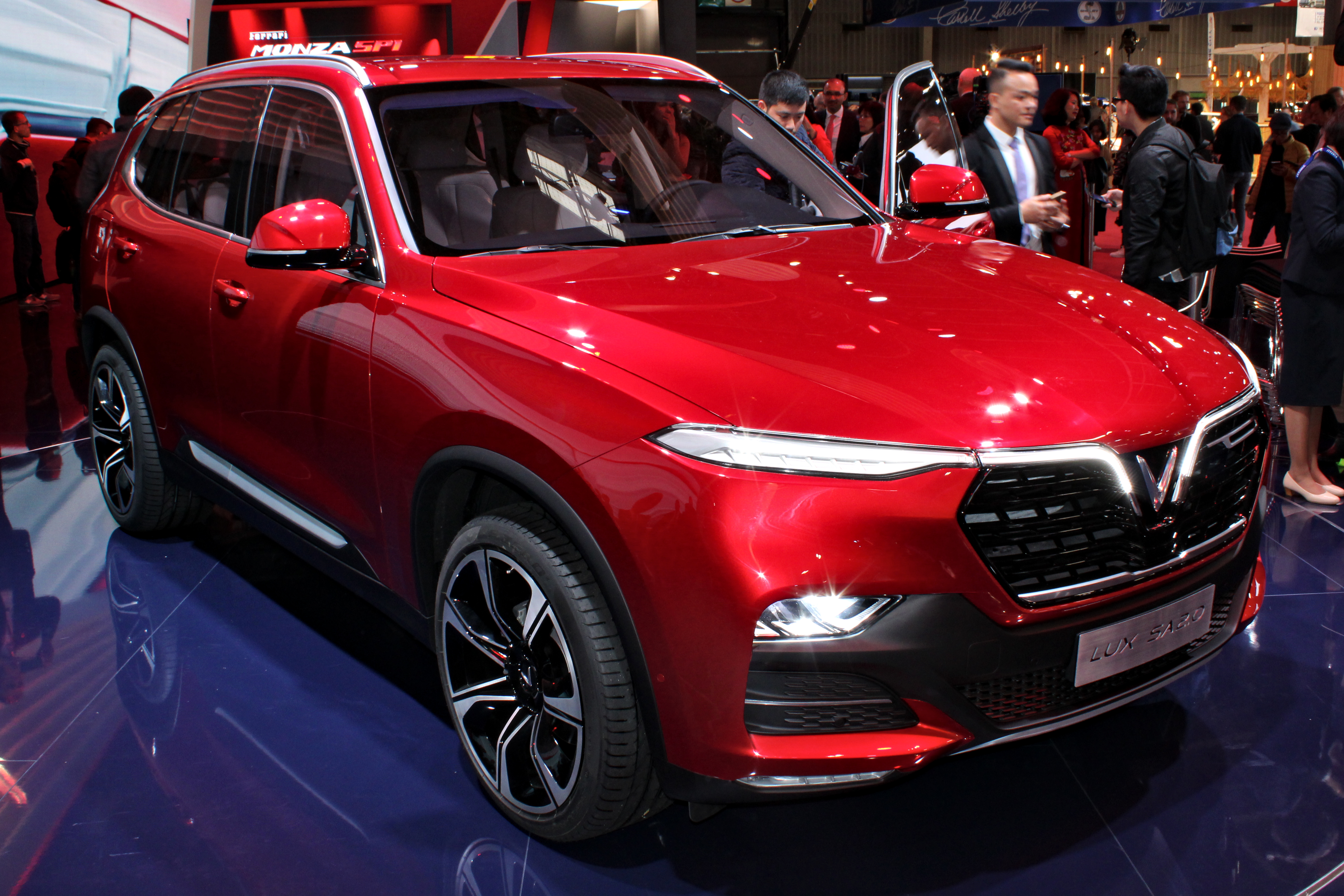 Vinfast Lux SA 2.0 at Paris Motor Show 2018